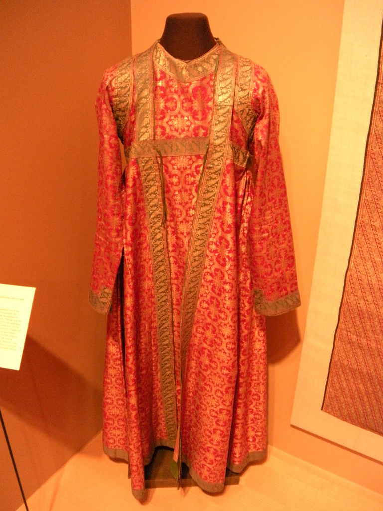 Man's Coat (Choga) Mughal Period (early 18th c.) Silk, gold and silver thread; continuous supplementary weft brocade Gift of The Christensen Fund, 2001 (10,907.1) Wikipedia Loves Art at the Honolulu Academy of Arts This photo of item # 10907.1 at the Honolulu Academy of Arts was contributed under the team name "airforceJK" as part of the Wikipedia Loves Art project in February 2009. Honolulu Academy of Arts The original photograph on Flickr was taken by airforceJK—please add a comment to the original Flickr page whenever a use has been made on Wikipedia or another project. Project galleries on Flickr: this institution, this team